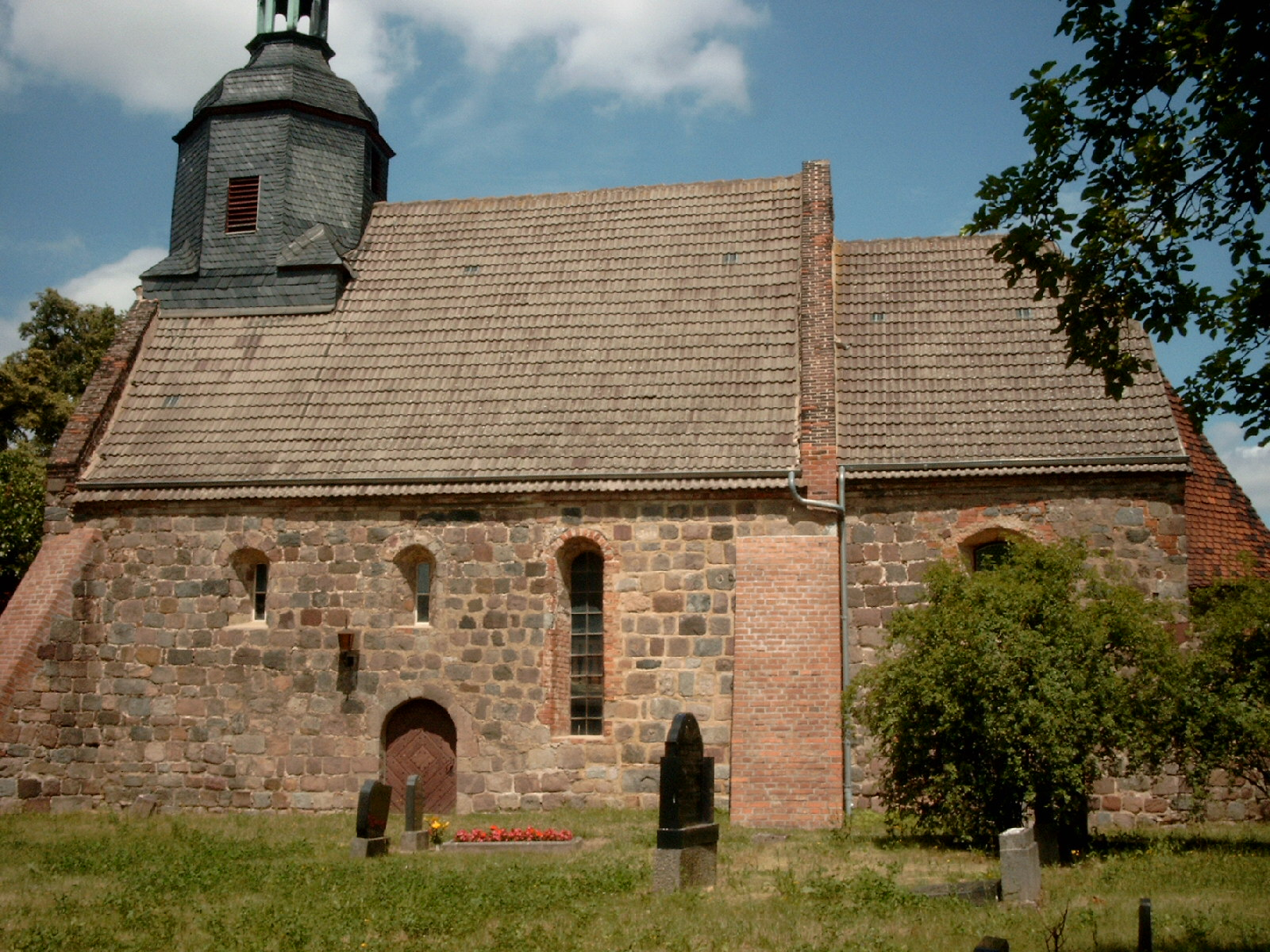 Rural church of Hohengörsdorf, Gem. Niederer Fläming, Lkr. Teltow-Fläming, Brandenburg, Germany, view from west